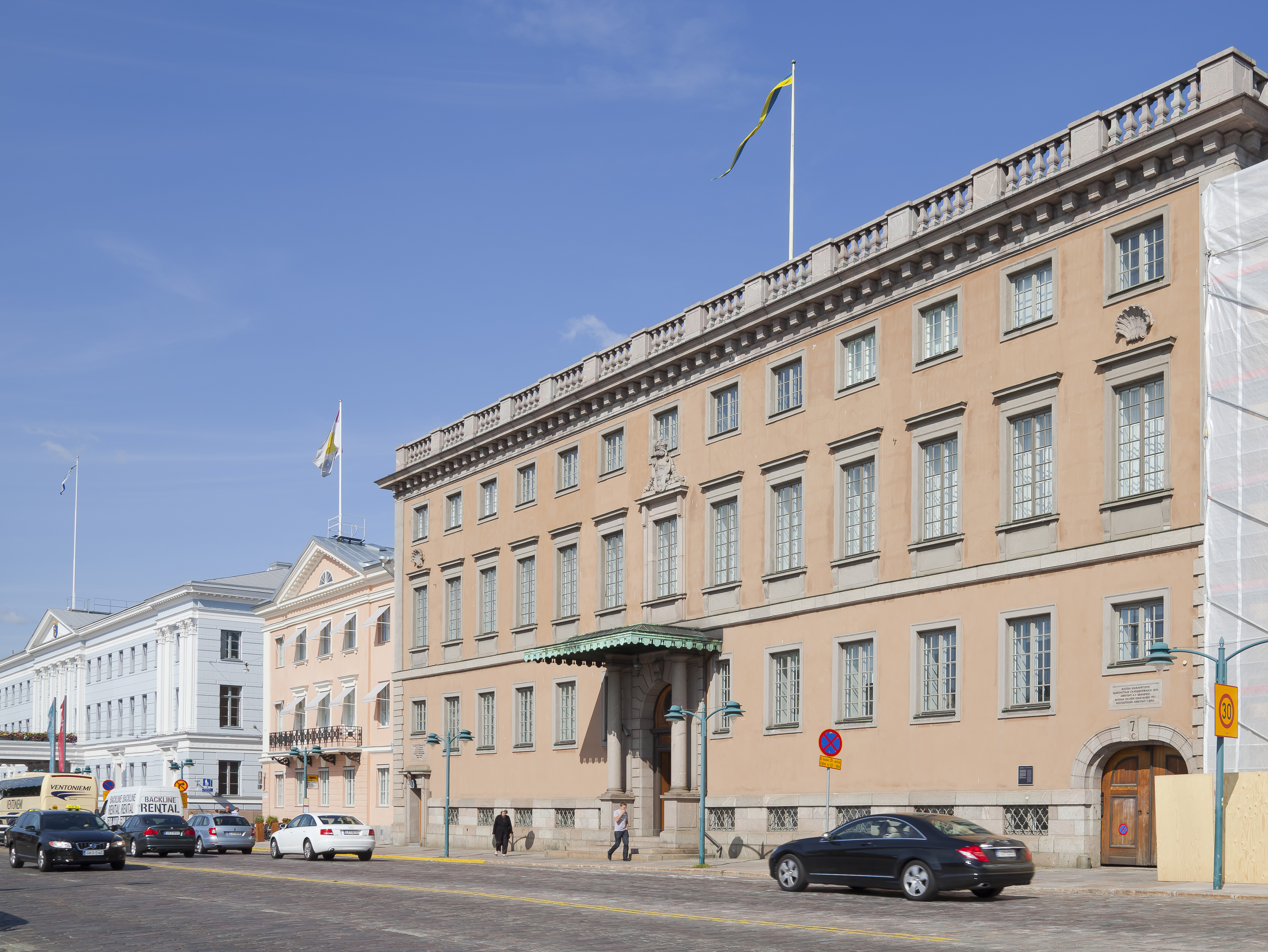 Swedish Embassy, Helsinki, Finlandia